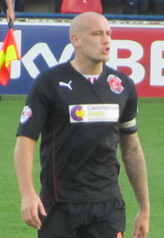 Ryan Cresswell.